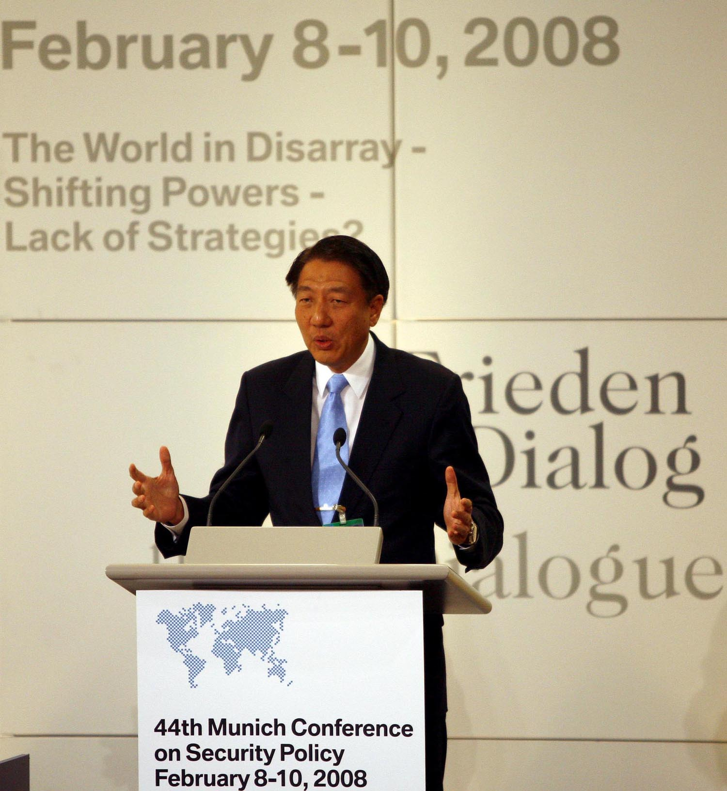 44th Munich Security Conference 2008: The Minister of Defense, Republic of Singapore, Teo Chee Hean, during his speech.